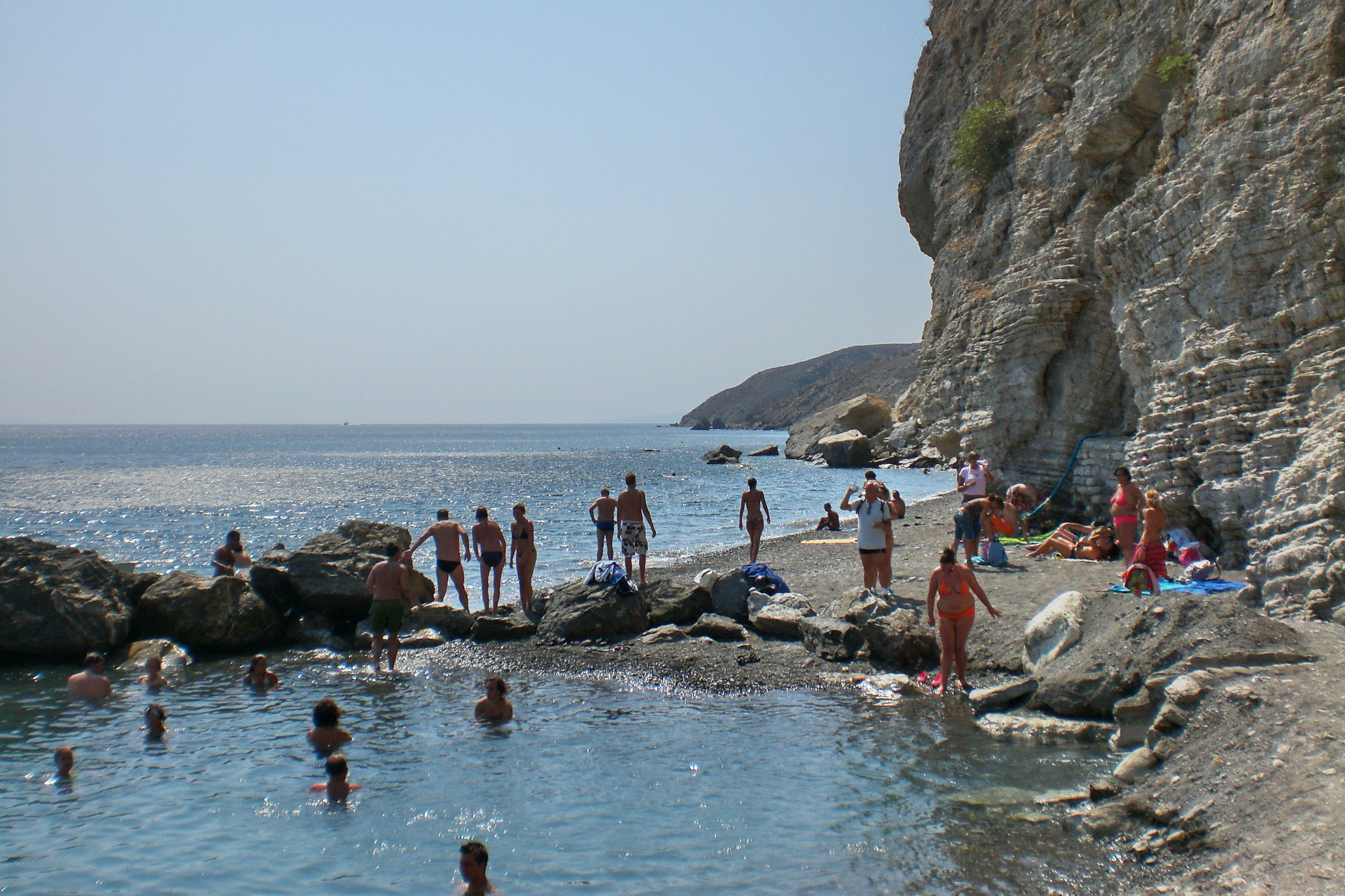 Embros-Therme auf Kos